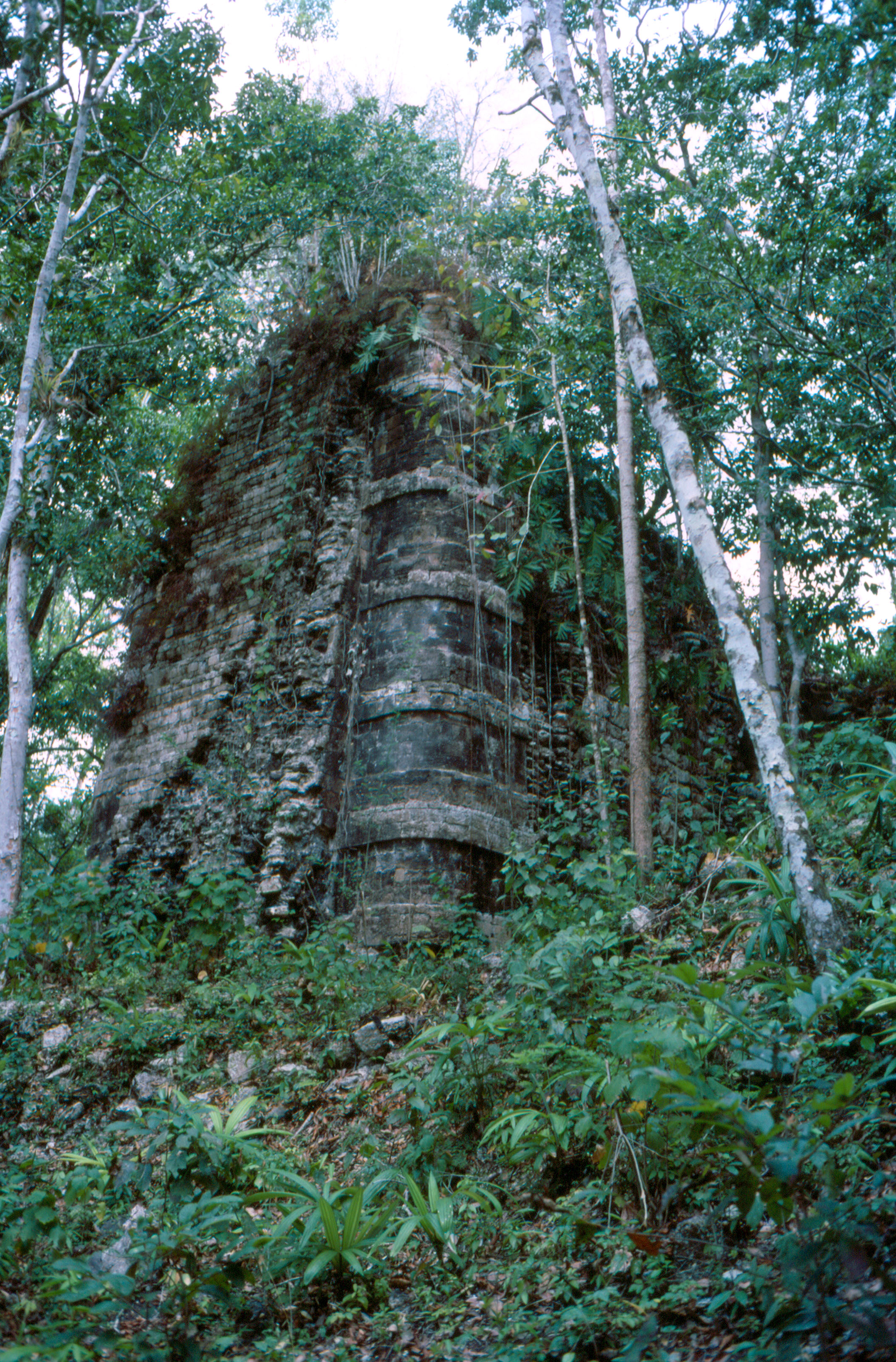 Río Bec A, Campeche, Yucatan.